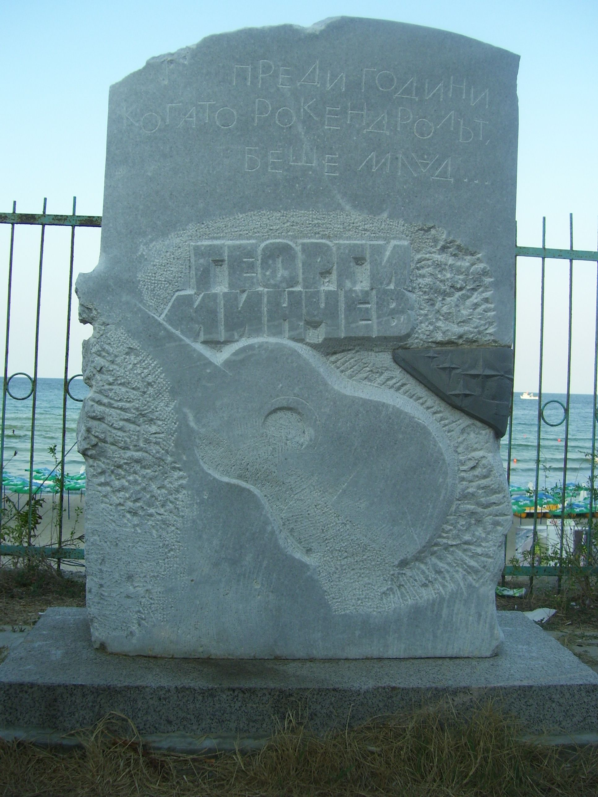 Memorial stone of Georgi Minchev in Sozopol, Bulgaria.